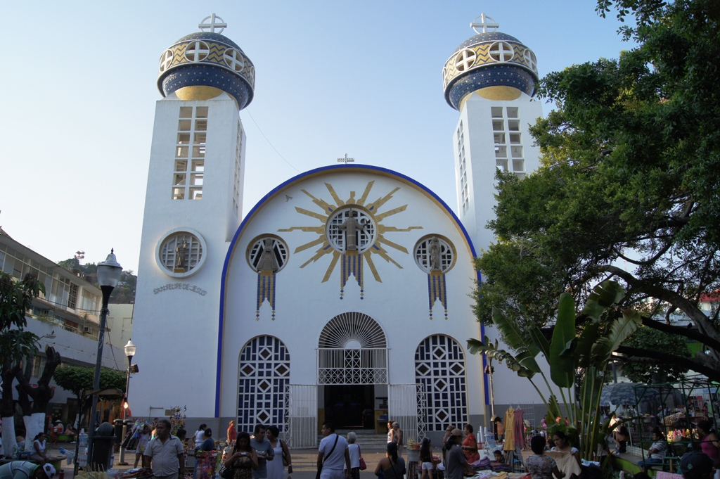 Cathedral of Nuestra Señora de la Soledad in Acapulco, Mexico. It has housed the See of the archdiocese of Acapulco since 1958.The architecture reflects different styles, neo-colonial, Moorish revival and neo-byzantine.